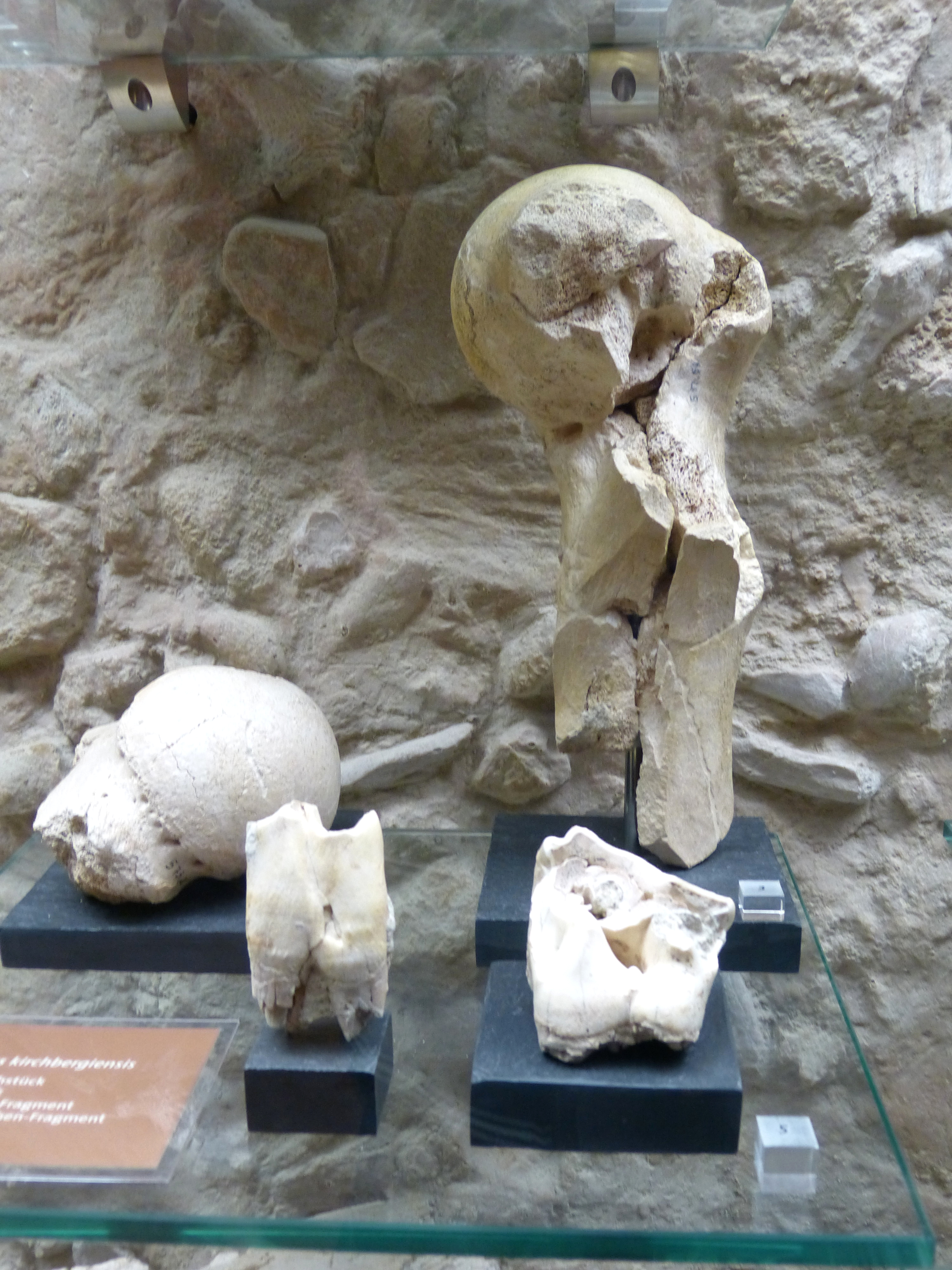 Weimar ( Thuringia ). Museum for Prehistory in Thuringia: Remnants of a forest rhino ( Stephanorhinus kirchbergiensis ) dating back 400.000 years, from Bilzingsleben.